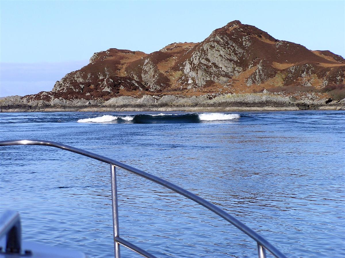 Tidal flow in the Garvellachs, Craobh Haven, Argyll and Bute , Scotland